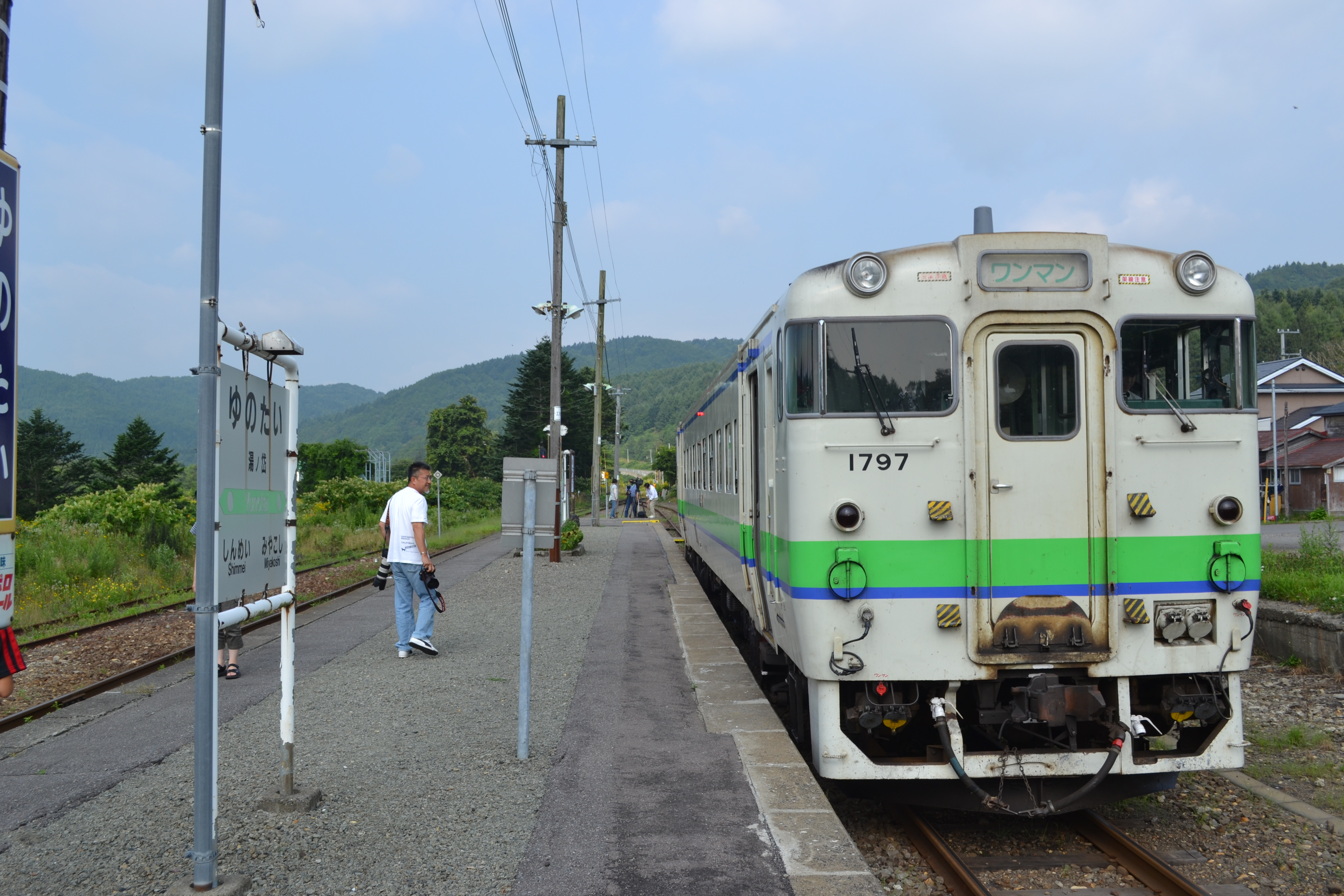 Yunotai Station in Hokkaido, Japan